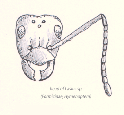 Head and mouthparts. Lasius sp. (Formicidae, Hymenoptera) A drawing by Halvard from Norway.